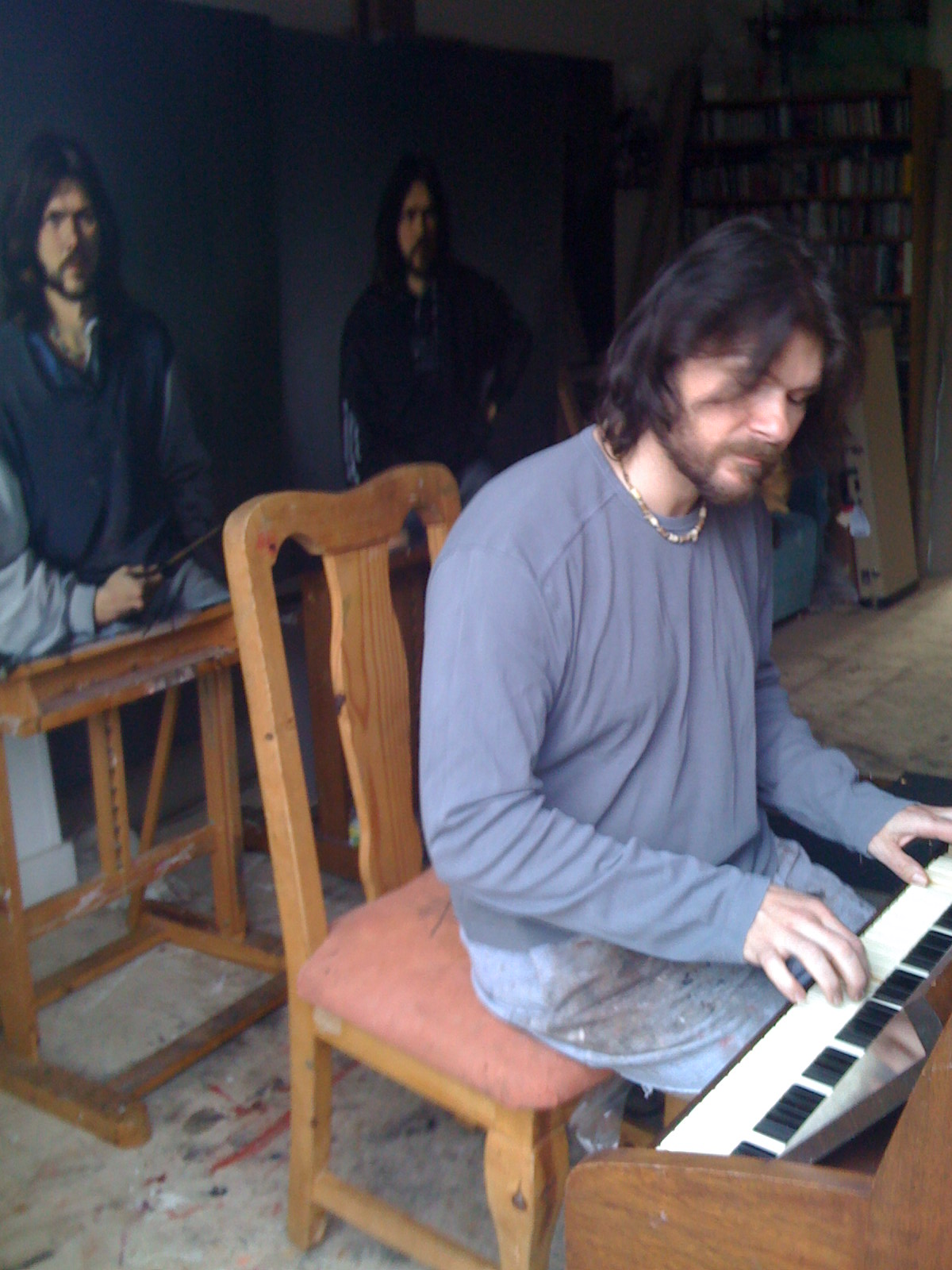 Paul Lisak in his studio in London